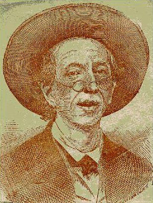 Taken from an old commemorative envelope